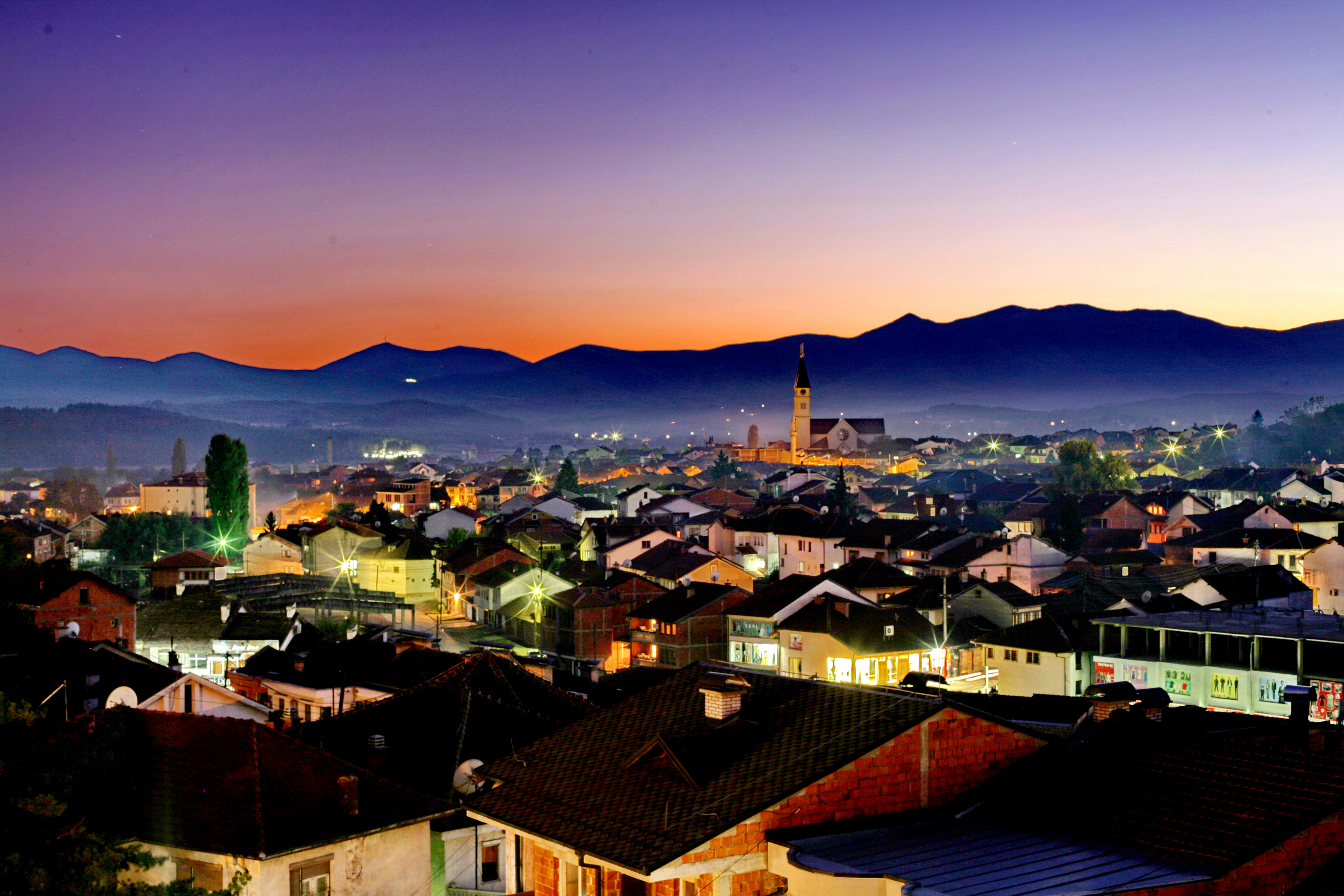 Gjakova at Night